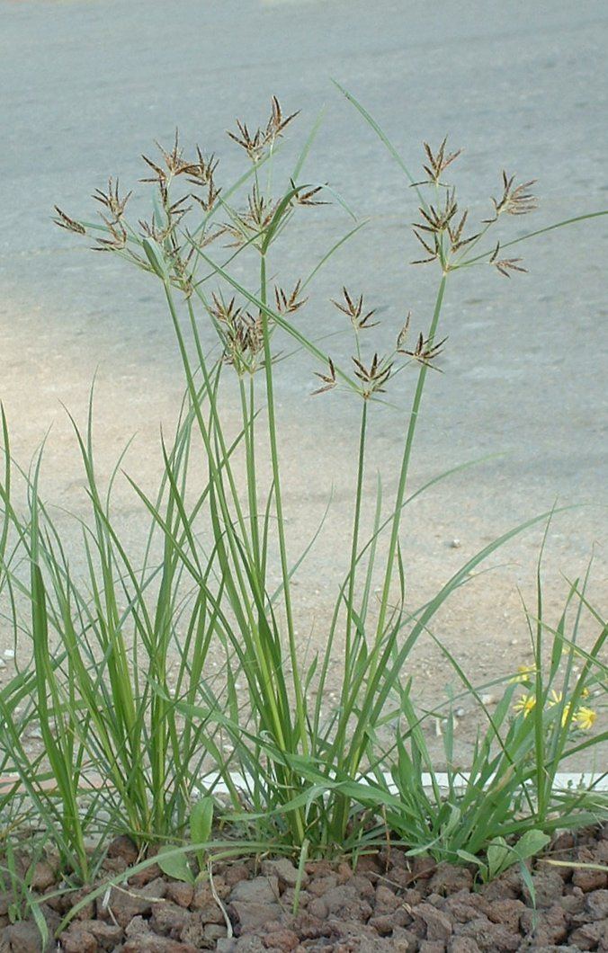 Nutgrass - Cyperus rotundus. Considered a pest plant. Photographed by myself with Fuji FinePix 2650, on Dec. 9, 2005.